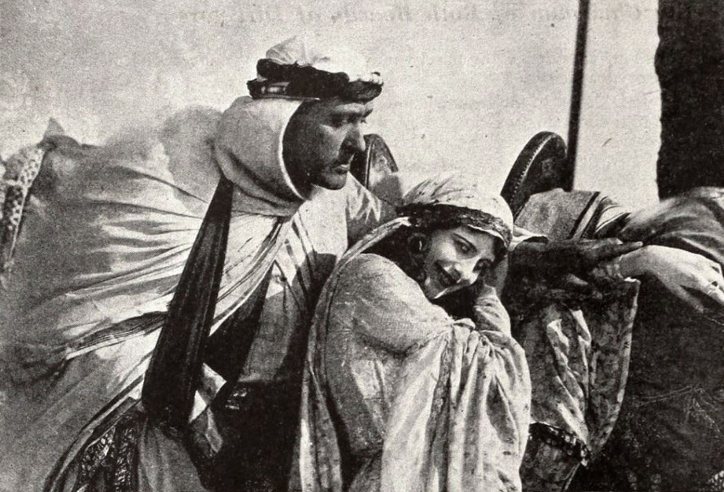 Still from the American drama film One Stolen Night (1923) with Alice Calhoun, on page 296 of the January 6, 1923 Exhibitor's Trade Review.